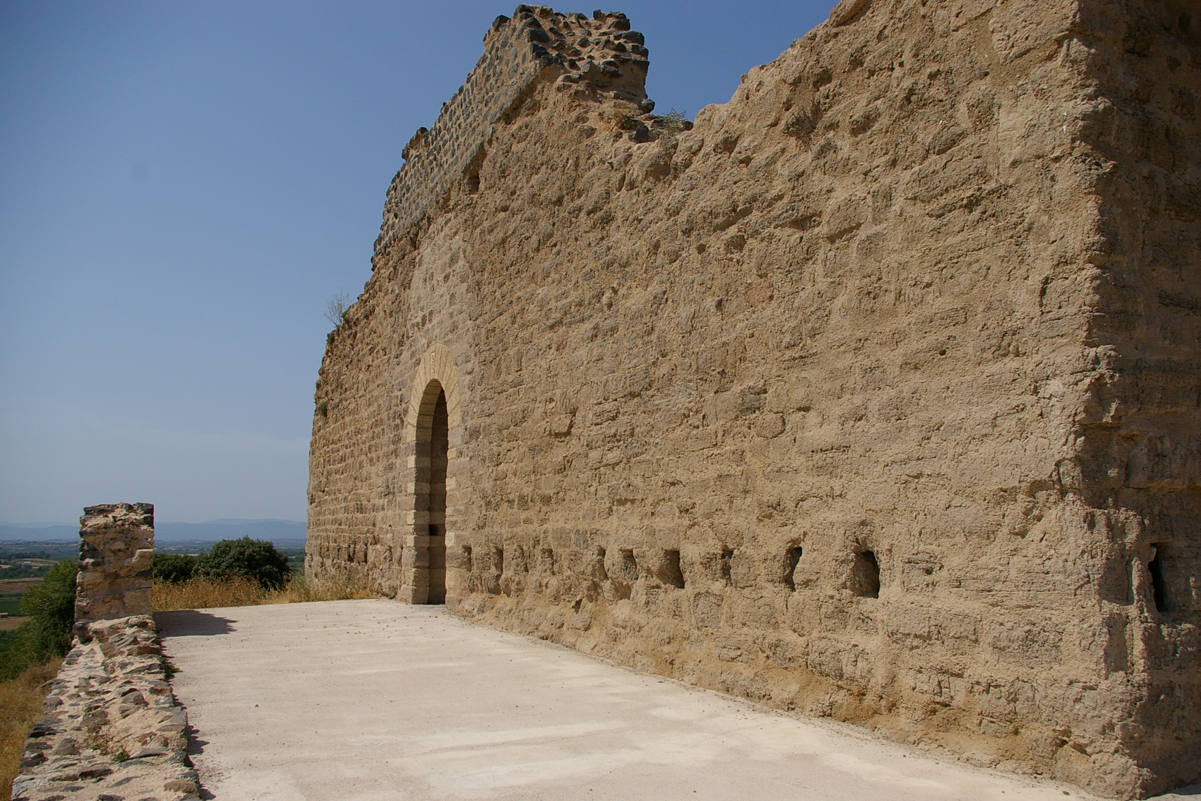 Fort de Valros in Valros, Hérault, France. South wall, showing defensive structure.